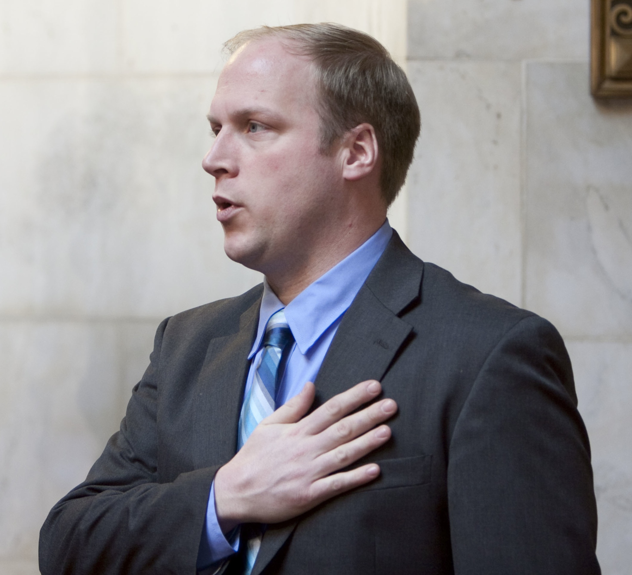 Wisconsin State Assemblyman Nick Milroy.